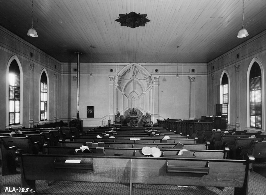 First Presbyterian Church, Broad Street (State Road 28), Camden, Wilcox, AL. INTERIOR VIEW FROM FRONT VESTIBULE.